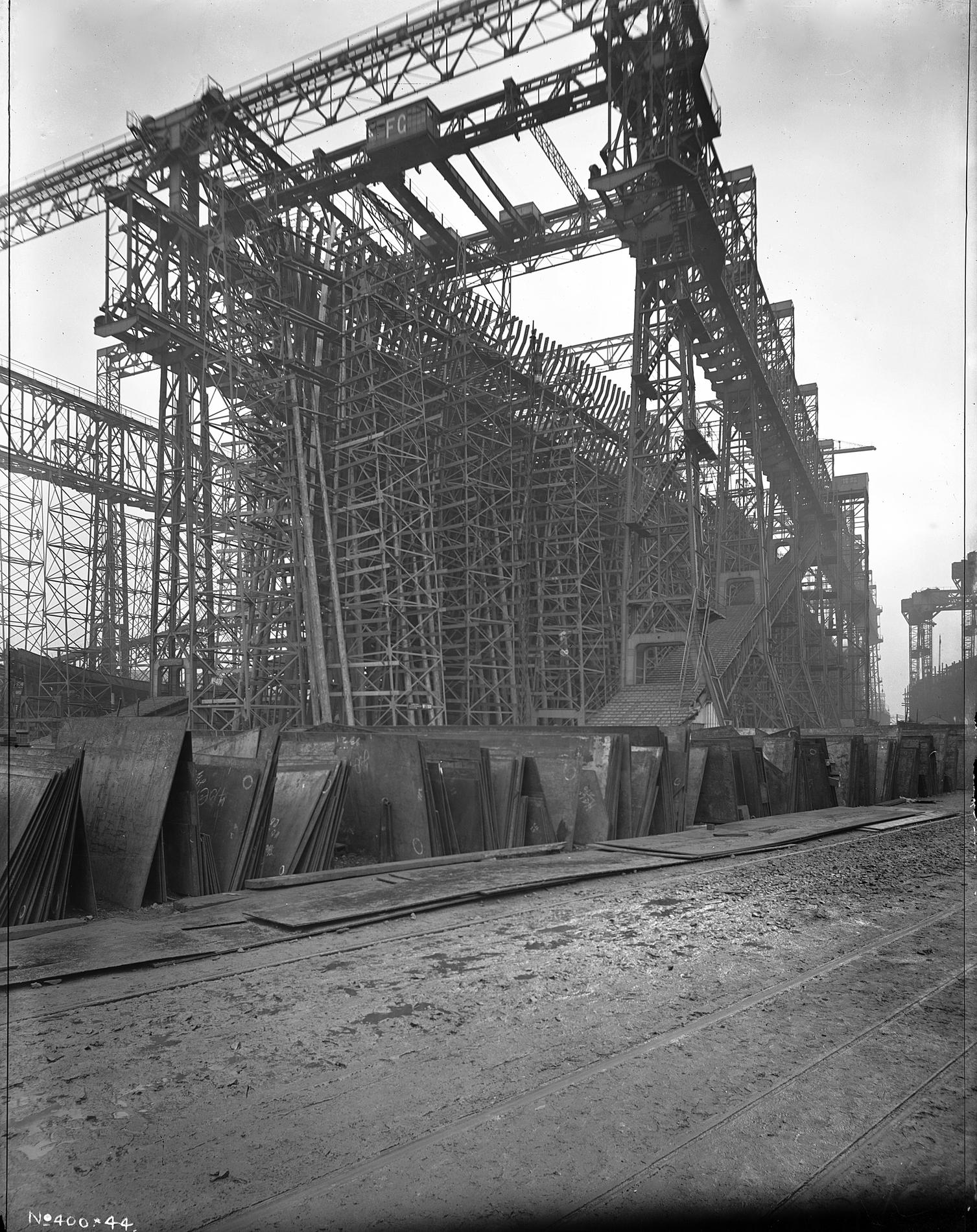 Olympic almost completely framed.